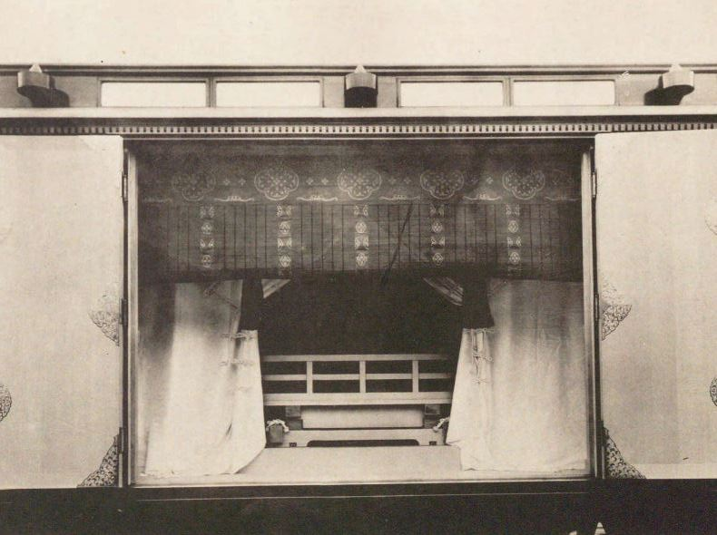 Kashikodokoro Jogyosha